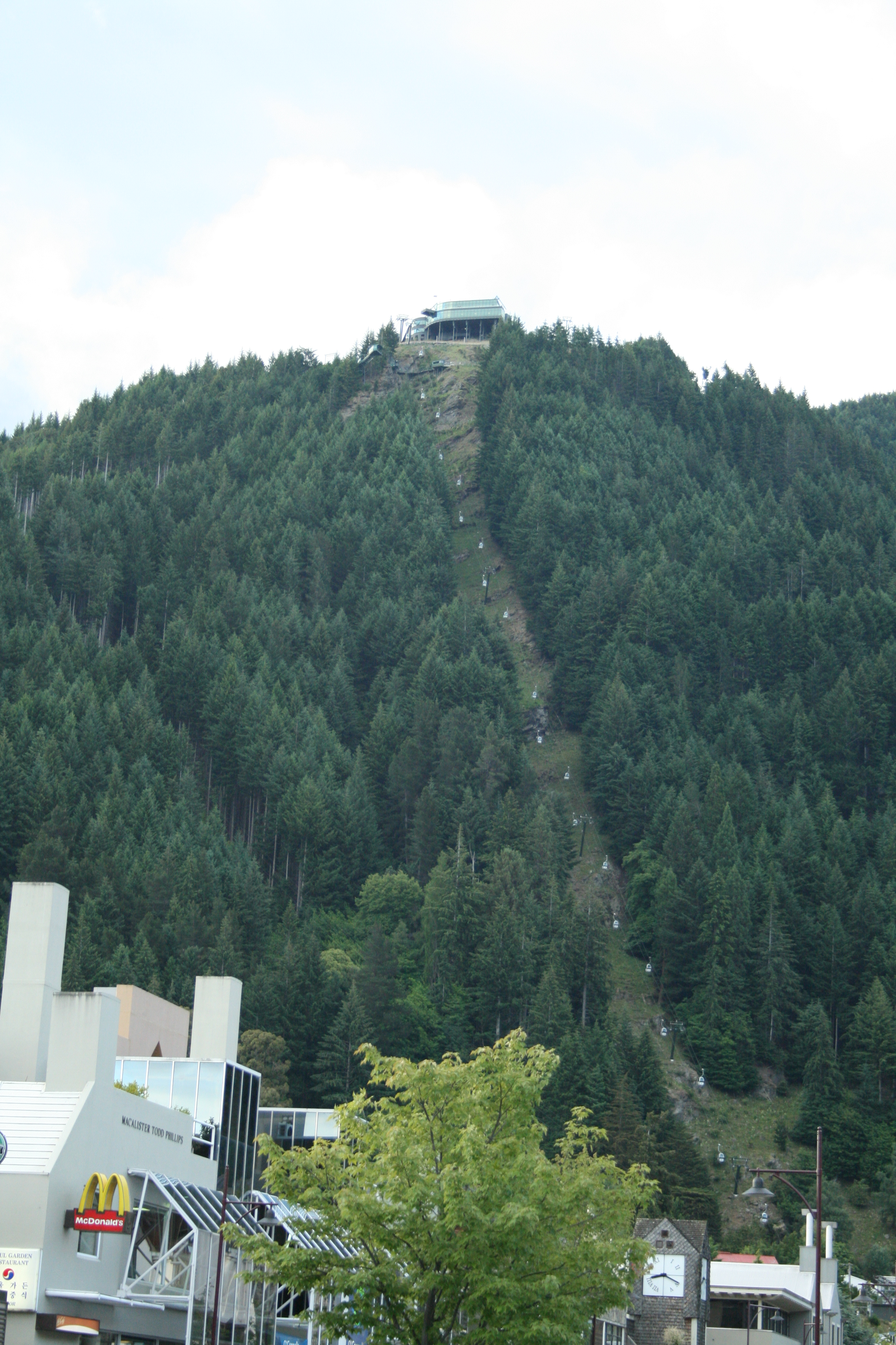 Queenstown, New Zealand